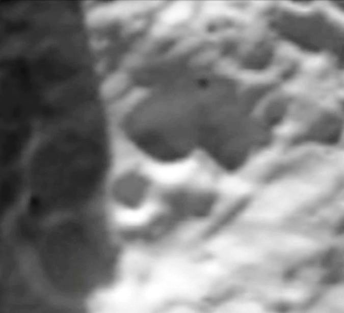 Derivative image. Zoom-in of lunar south pole near Cabeus Crater. Structure - like feature on south pole of the moon.